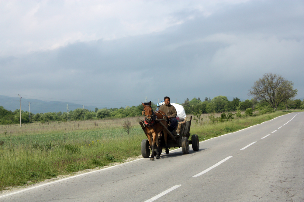 A Gypsy Cart in Dolna banya, Bulgaria